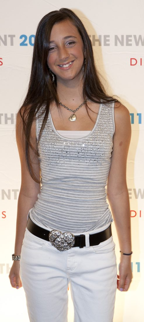 Description from Flickr: "NewFront speaker, 12-year-old singer, and YouTube sensation Jenna Rose arrives at the event for her panel, 'Modern Family: A Kitchen Table Discussion.'" For use at Jenna Rose